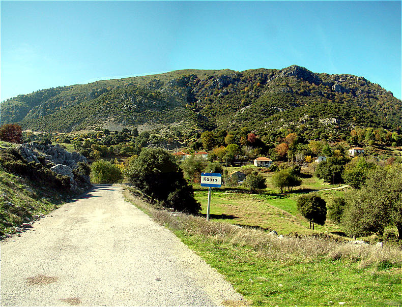 The entrance of Kastri, Evrymenes (Kastri, Zitsa after 01/01/2011)